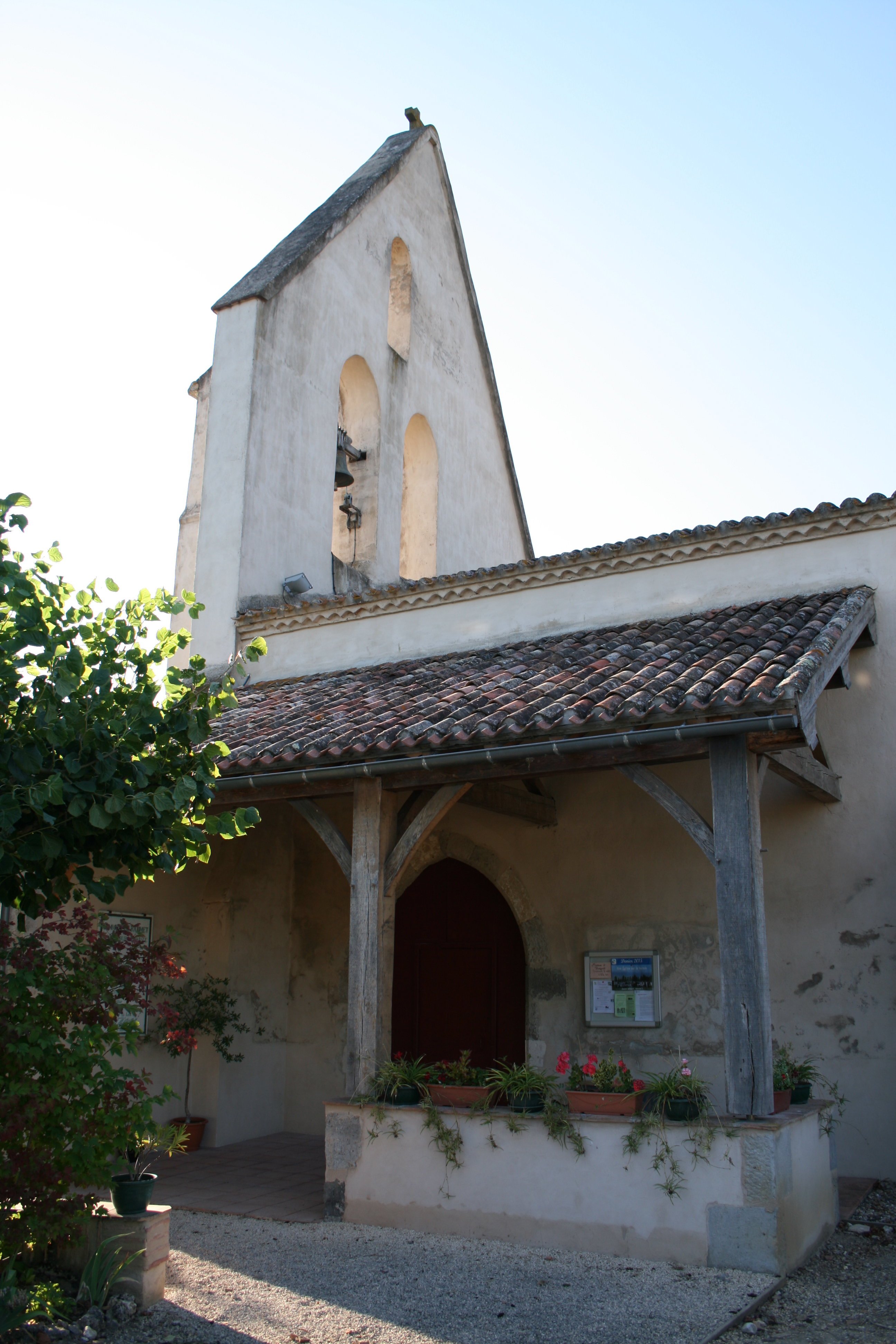 Razimet's Church